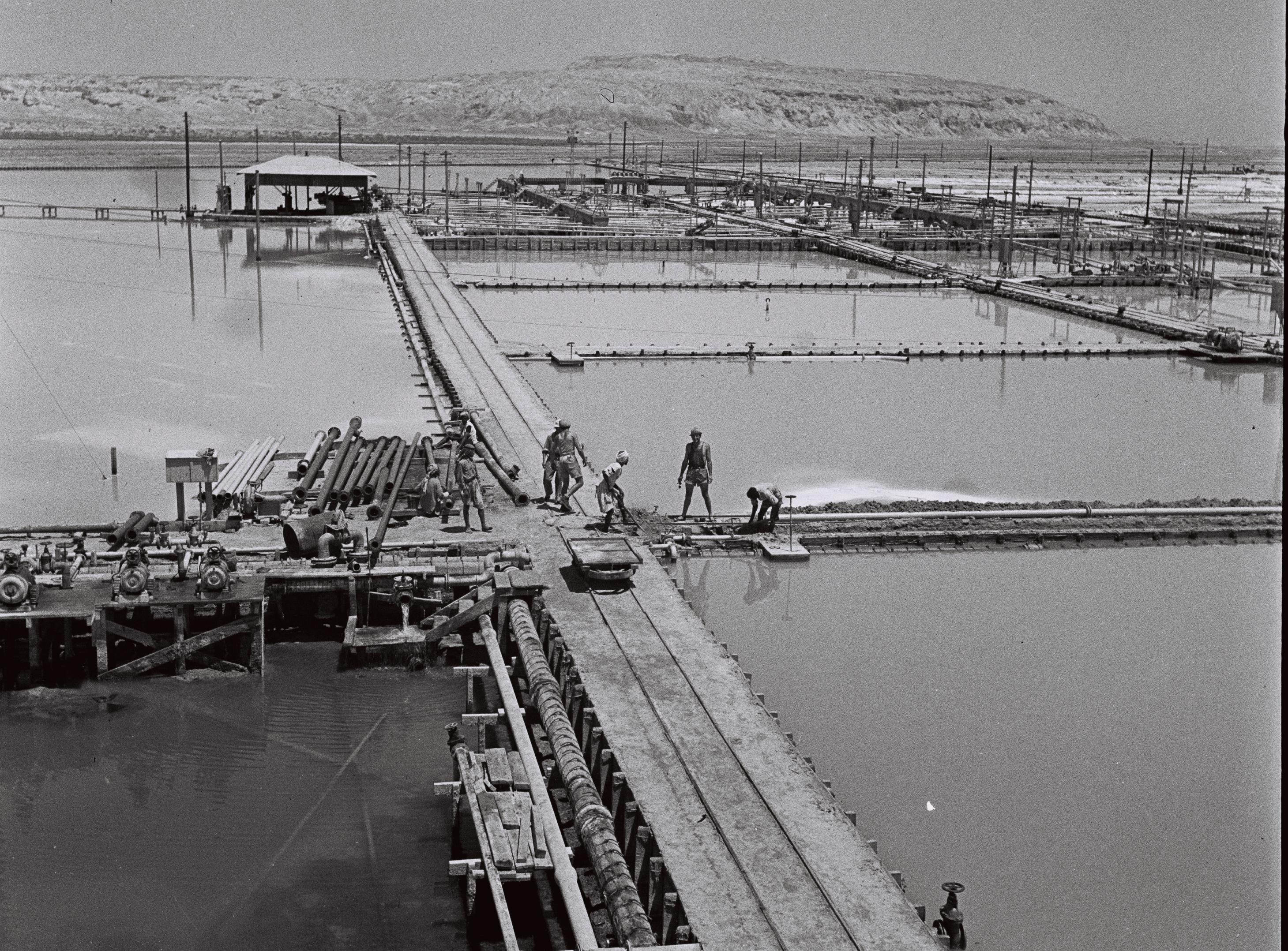 The evaporation pools of Dead Sea Works in Sdom.